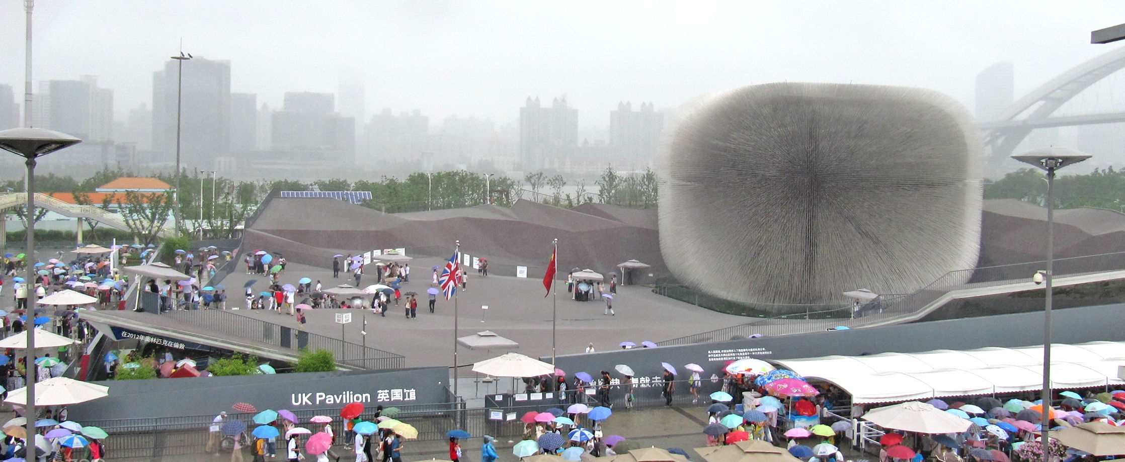 The UK pavilion at Expo 2010, aka the "Seed Cathedral"